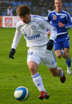 Andrei Arshavin